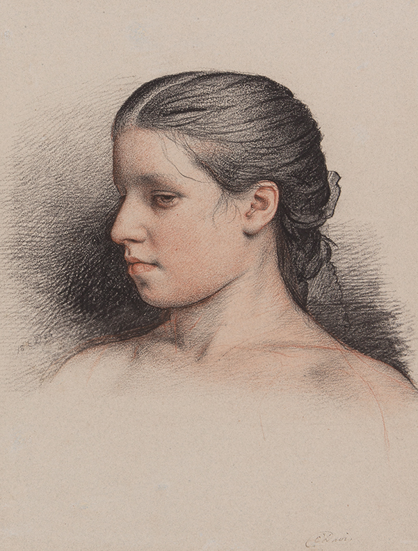 ‘… an exact likeness’. Black and red chalks. Signed and dated, 1856. Inscribed on the original backing. 9x6.75 inches. Framed: 16.25x13.25 inches. Offered for sale in 2017 by Abbott & Holder for £1,750.